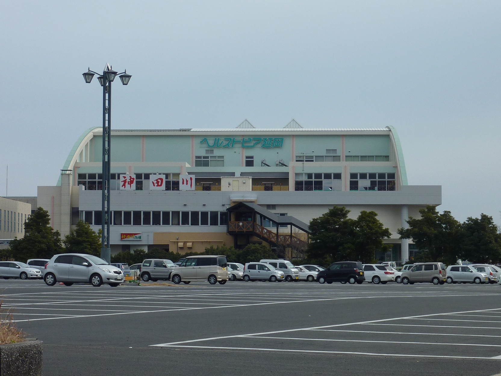 Healthtopia (Nobeoka City, Miyazaki Prefecture, Japan)